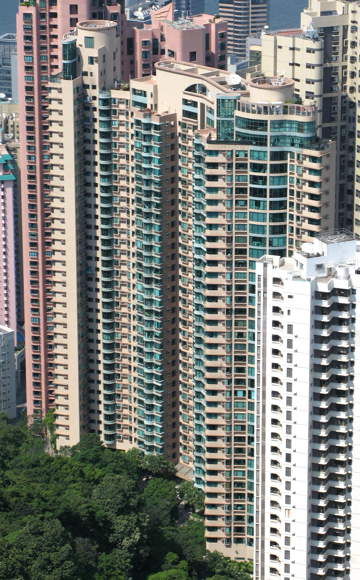 Hillsborough Court